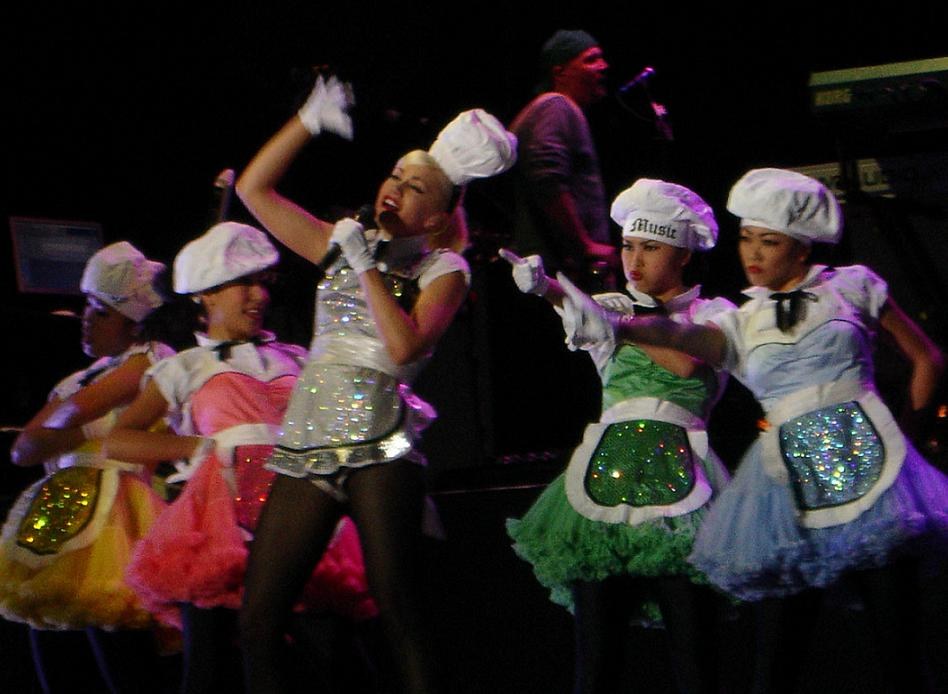 Gwen Stefani performing "Yummy" in Bogotá, Colombia